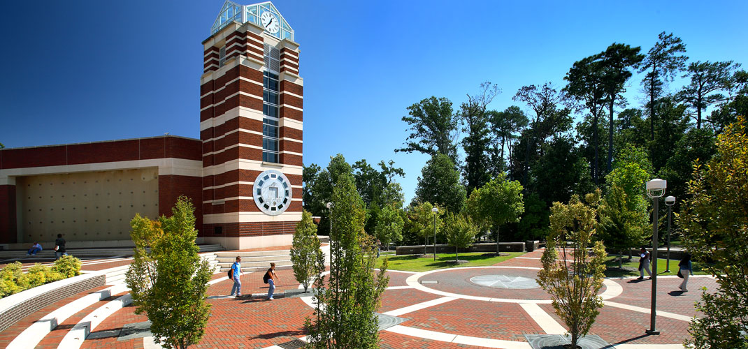 The Joyner Library Clock Tower at East Carolina University in Greenville, NC.